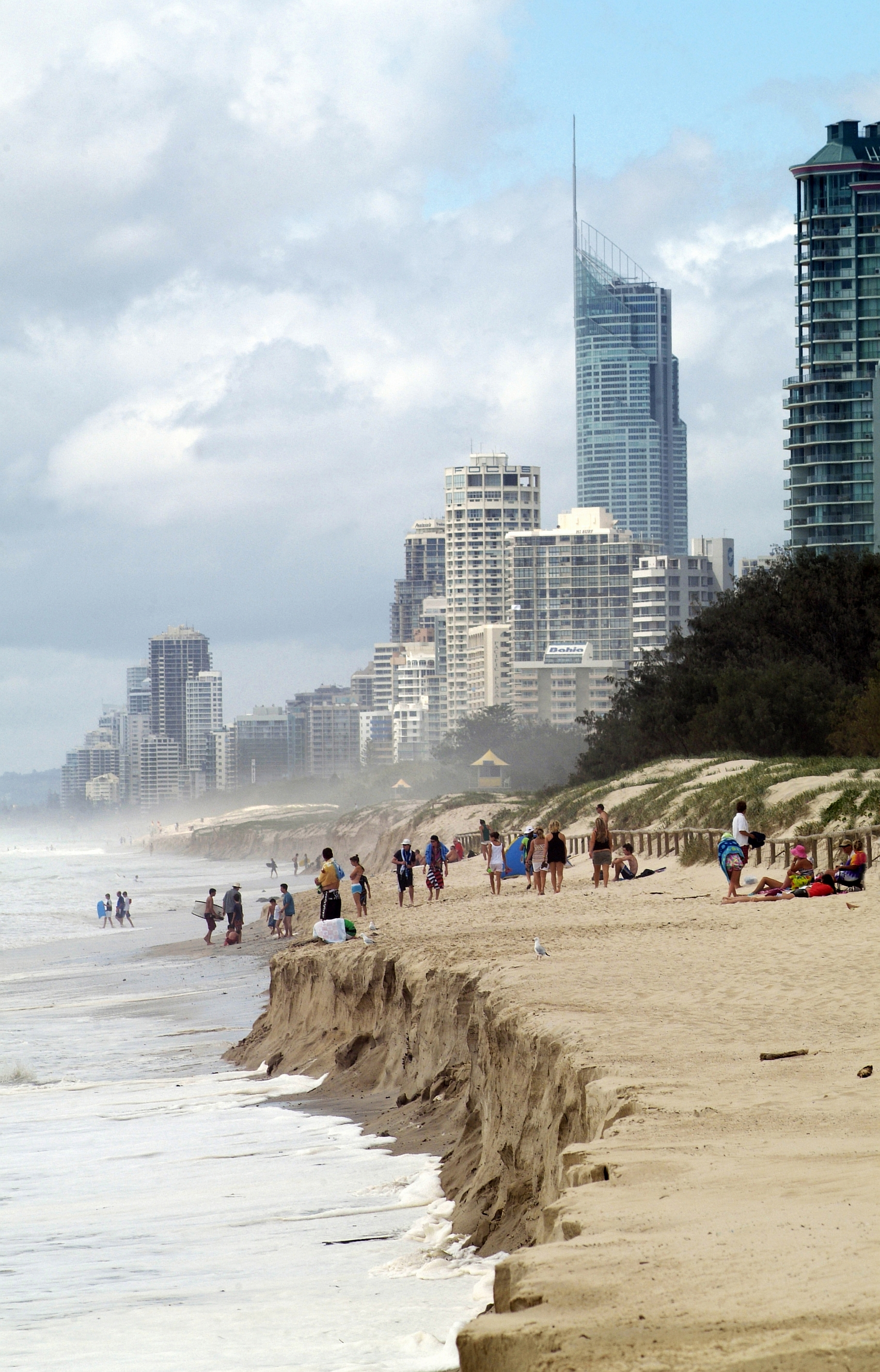 King tides are natural events that happen twice a year. By 2060 to 2070 we could be experiencing tides of at least this magnitude every month, rather than just twice a year due to climate-change induced sea level rise.